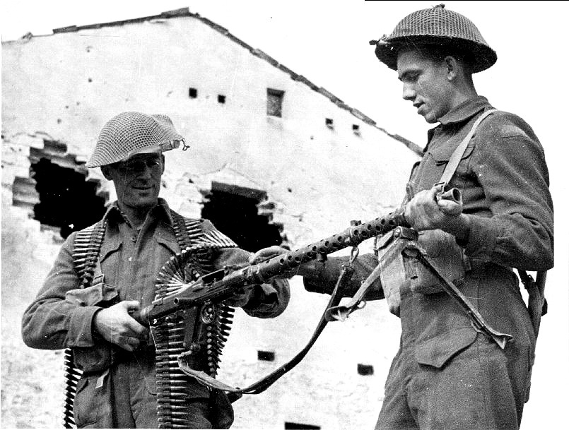 Canadians in Italy: Canadian soldiers inspect a captured German MG 34 machine gun. With a rate of fire of up to 900 rounds per minute it was significantly faster firing than its Canadian army counterpart, the Bren gun.